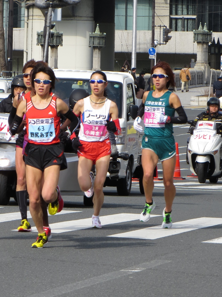 32nd Osaka International Ladies Marathon. Runner that passes through the Yodoyabashi. (From right to left) Yoko Shibui, Mari Kozaki, Azusa Nojiri (Pacemaker). Kayoko Fukushi put one person behind the Nojiri.